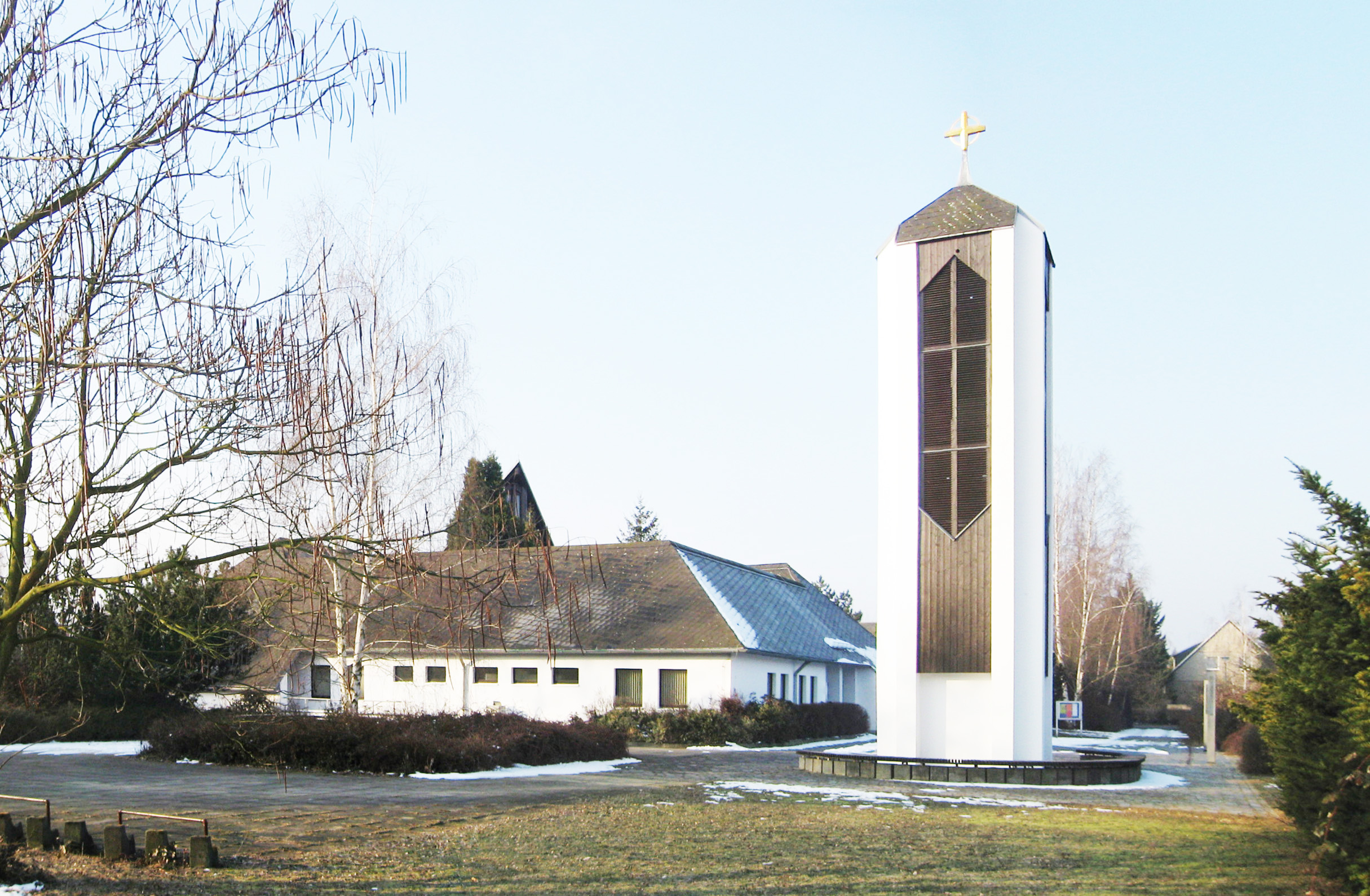 Paulus Church in Leipzig-Gruenau, Alte Salzstrasse 185